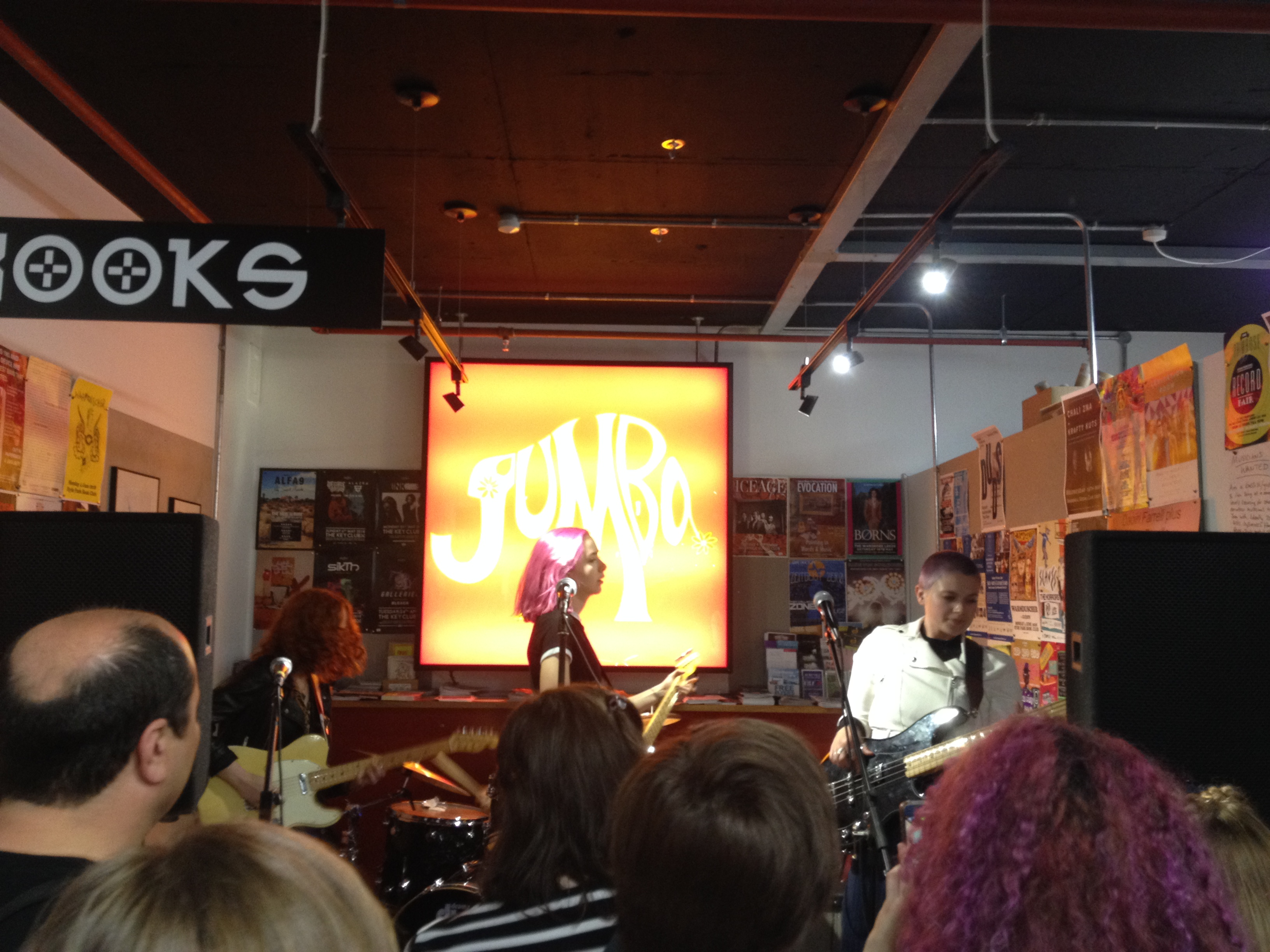 The Regrettes performing in 2018.